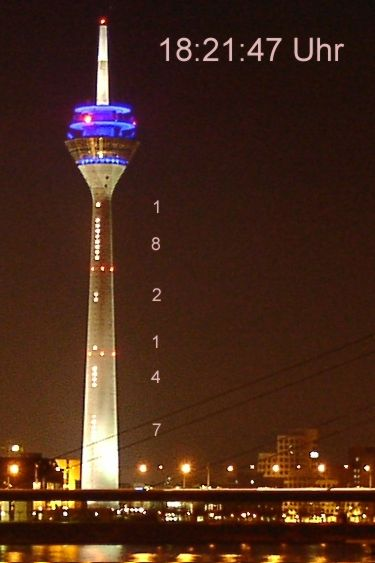 Explains the digital clock of the Rheinturm in Düsseldorf